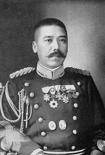 Kazutsura Yamane